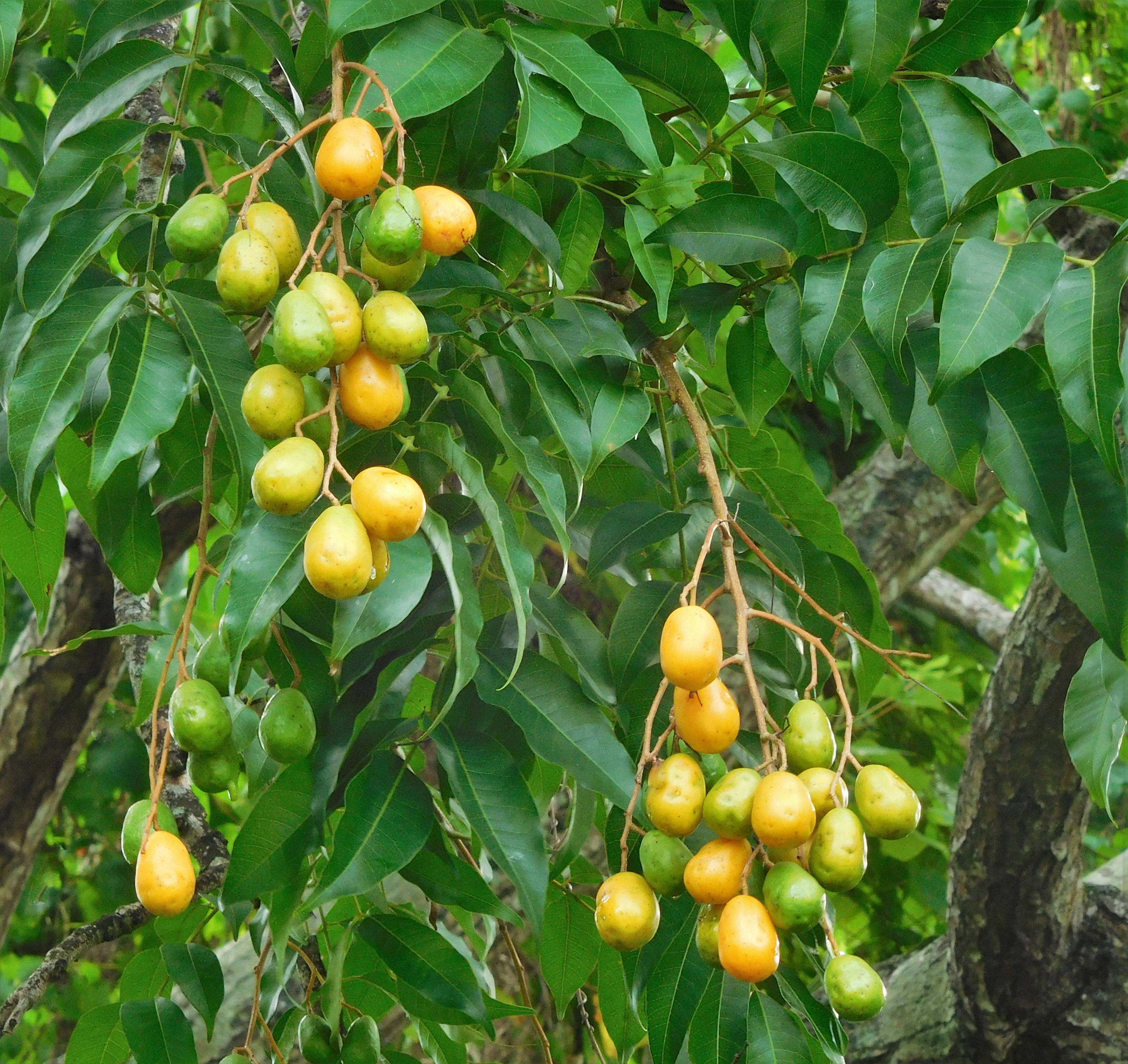 Ashanti plum , Yellow mombin